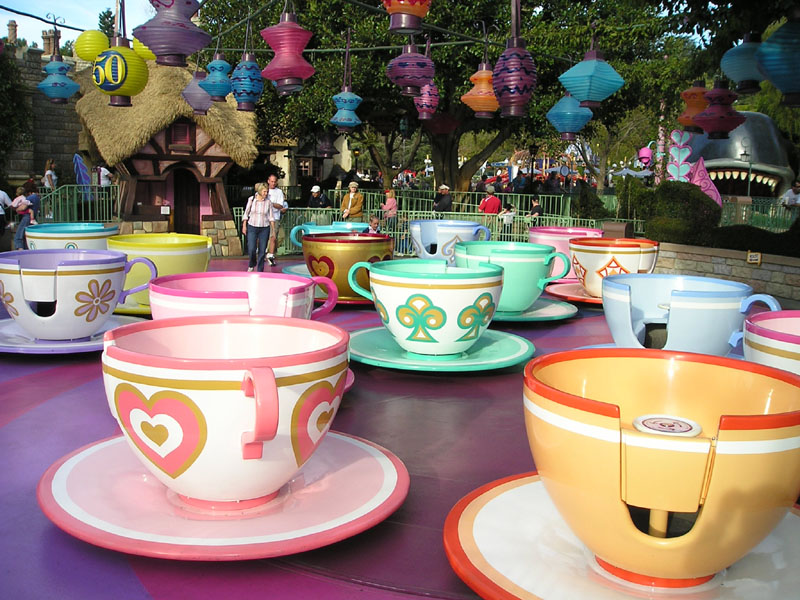 Disneyland's Mad Tea Party by Ellen Levy Finch (user:Elf) feb 2006